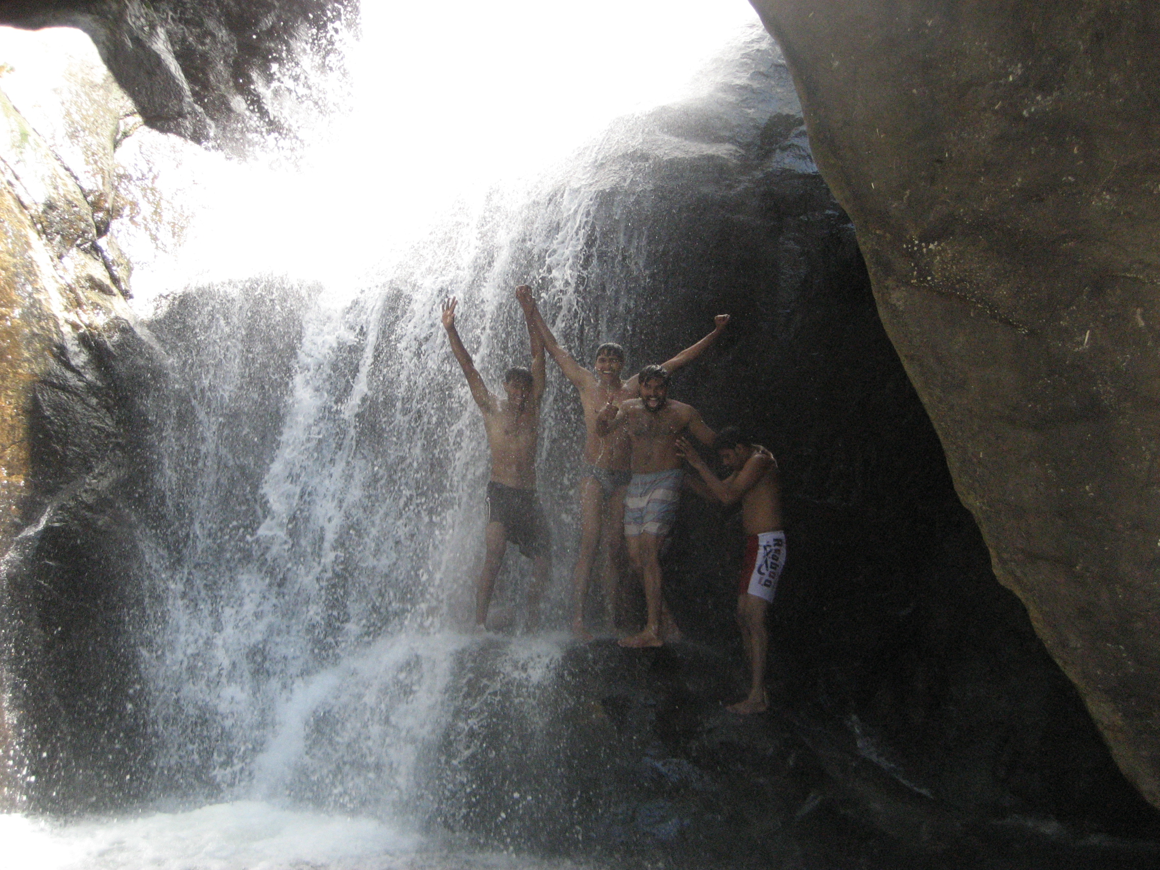 Photo taken during my visit.